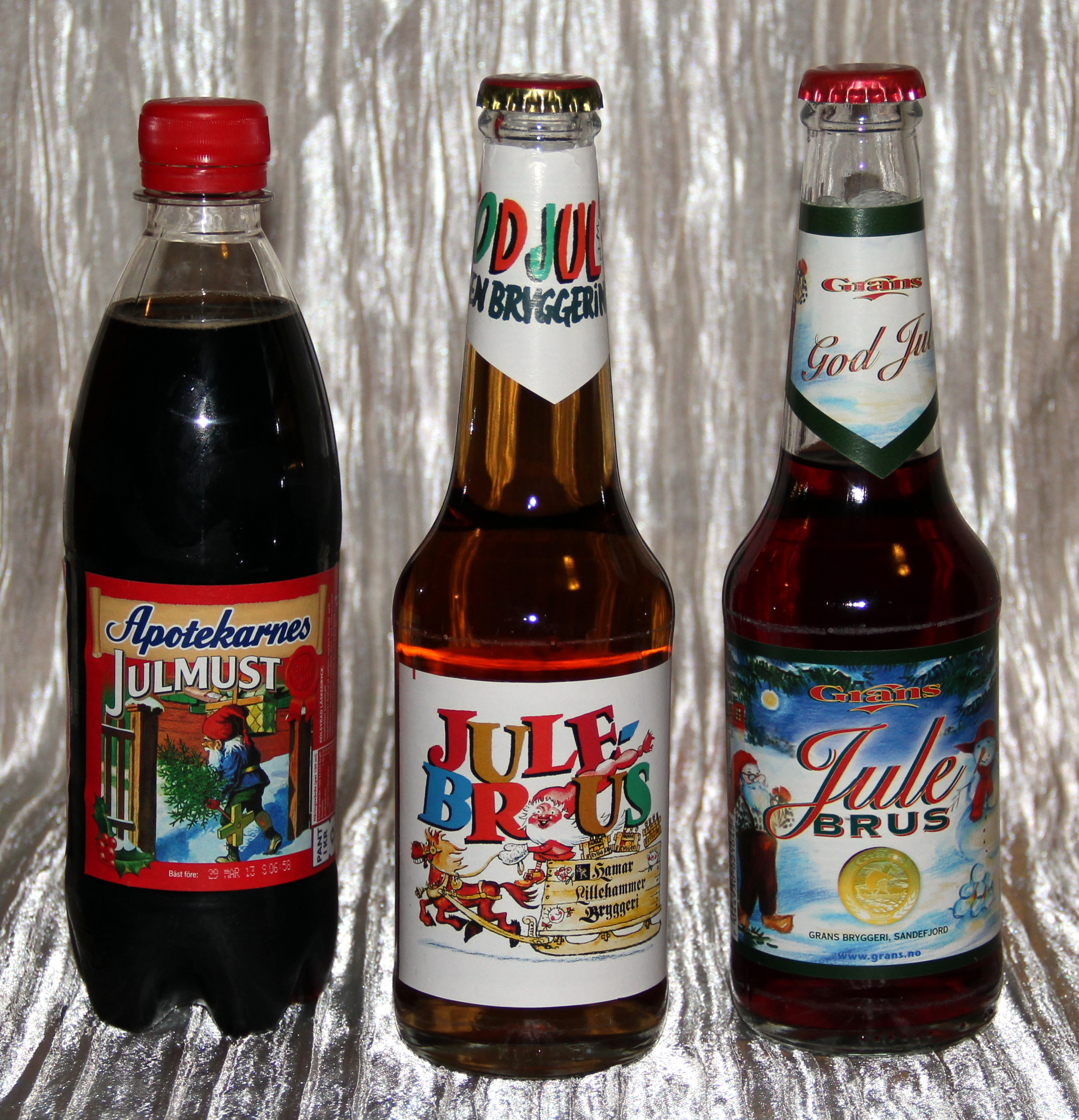 Christmas seasonal sodas of Scandinavia: Hamar og Lillehammer Julebrus, Julemust og Grans julebrus